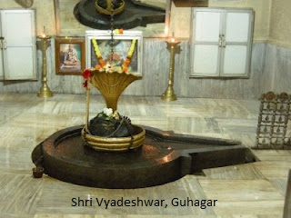 Shri Shiva Pindi of Shri Vyadeshwar